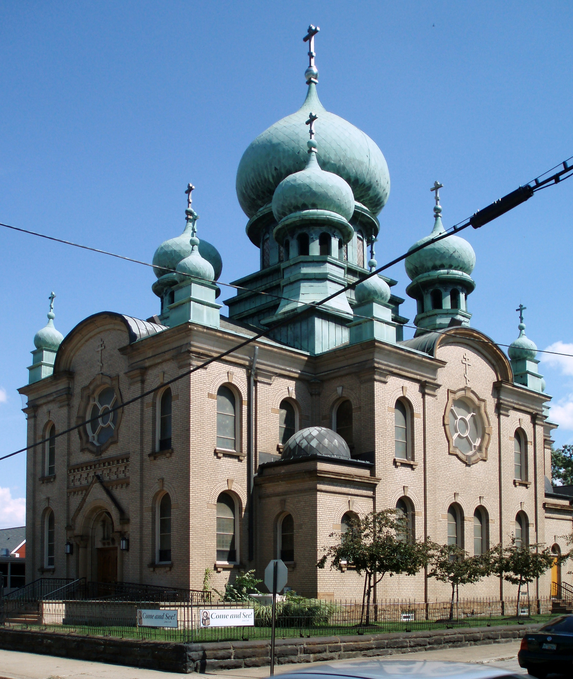 Saint Theodosius Orthodox Cathedral in Cleveland, Ohio's Tremont neighborhood